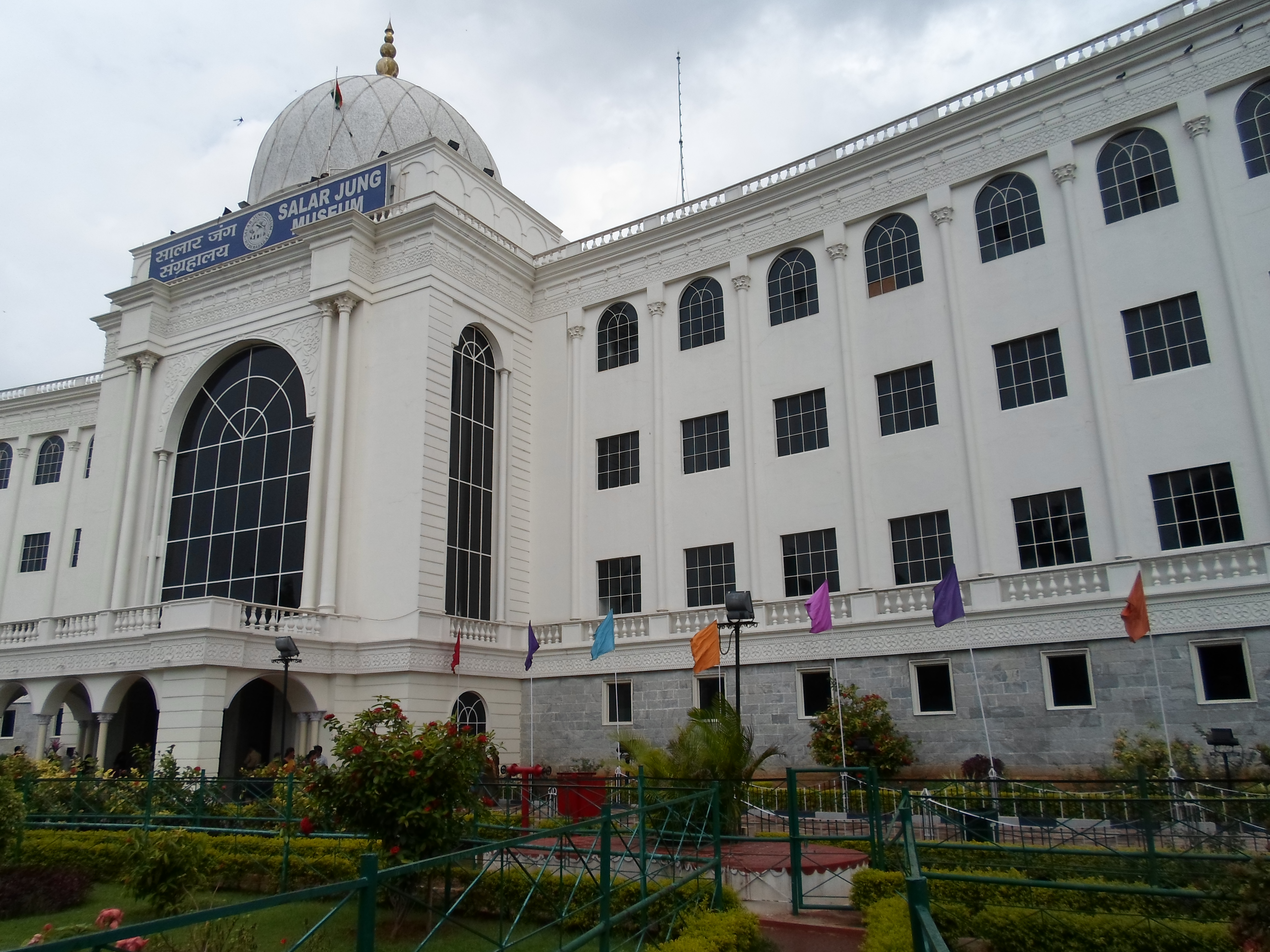 The Salar Jung Museum was established in 1951. The major portion of the collection of the museum was acquired by Mir Yousuf Ali Khan, popularly known as Salar Jung III. It has very good collection of Ivory.